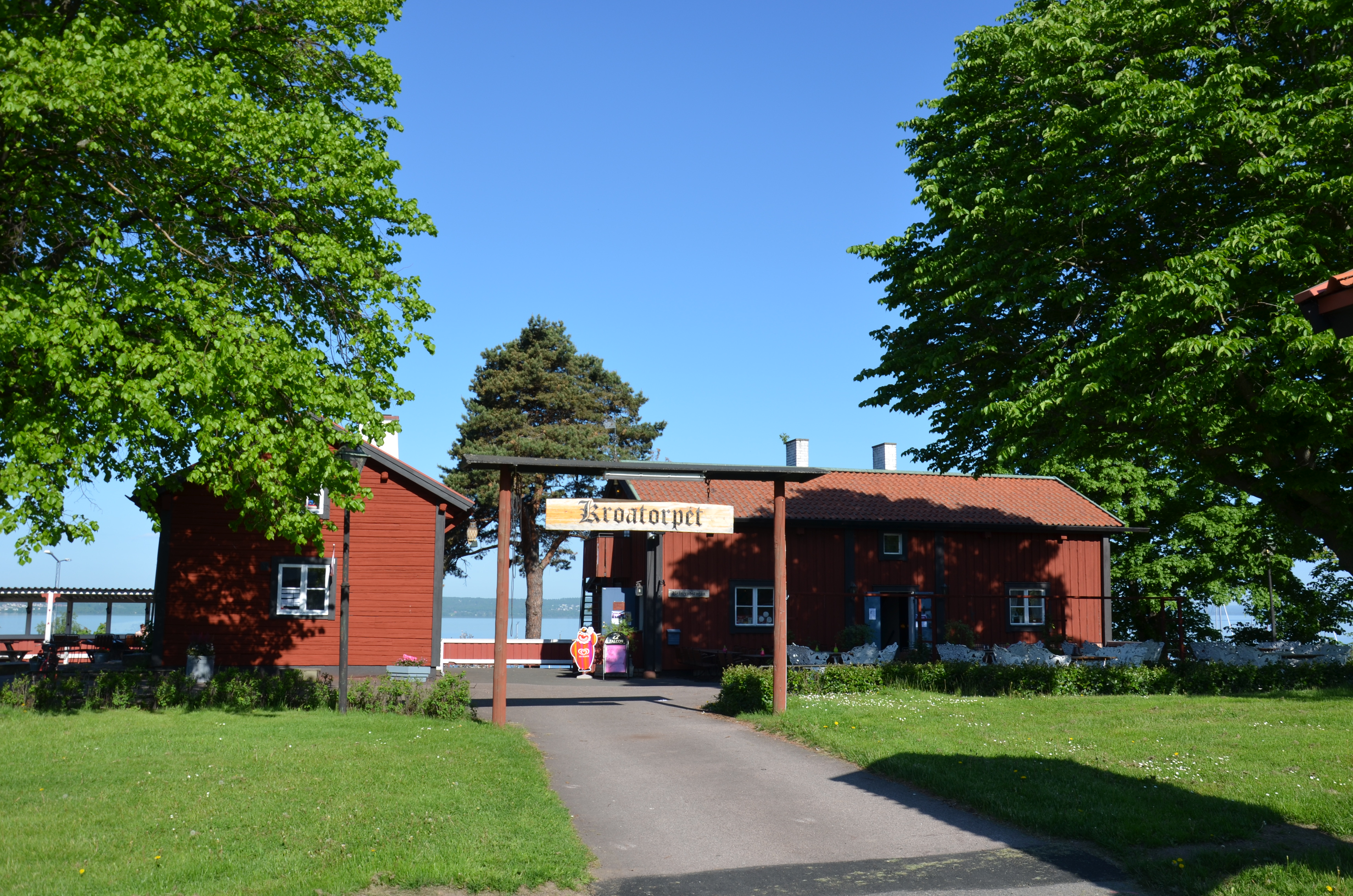 Kroatorpet, Gännavägen Huskvarna. Two old cottages moved to Huskvarna from the countryside.